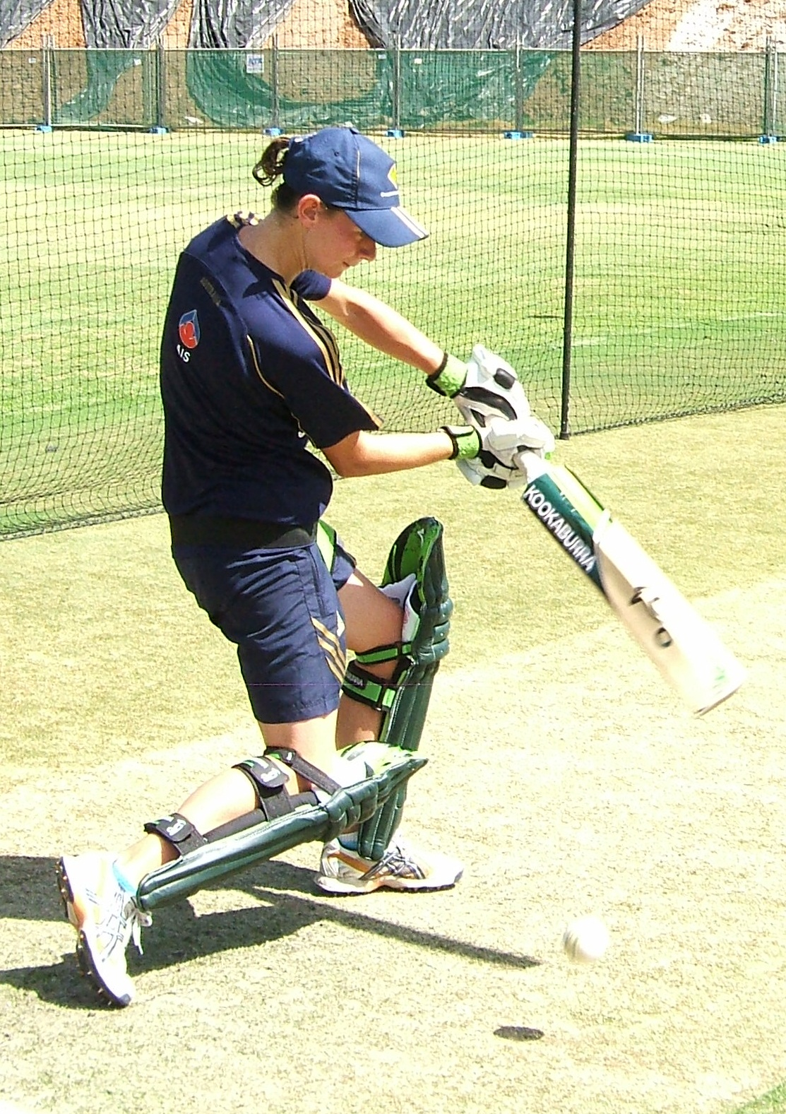 Named person engaging in named action at Adelaide Oval nets/training ground